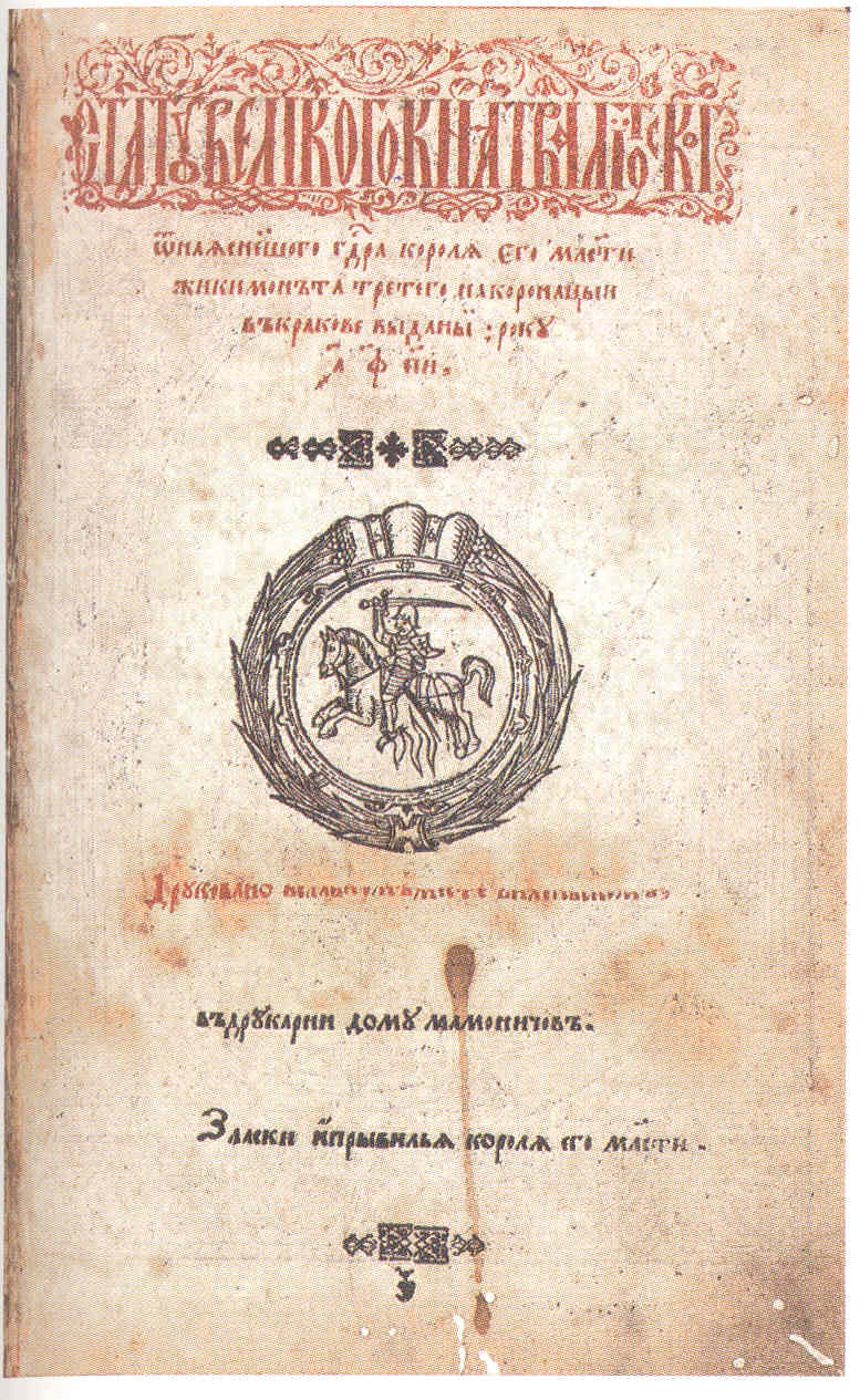 Statute of Grand Duchy of Lithuania, third edition